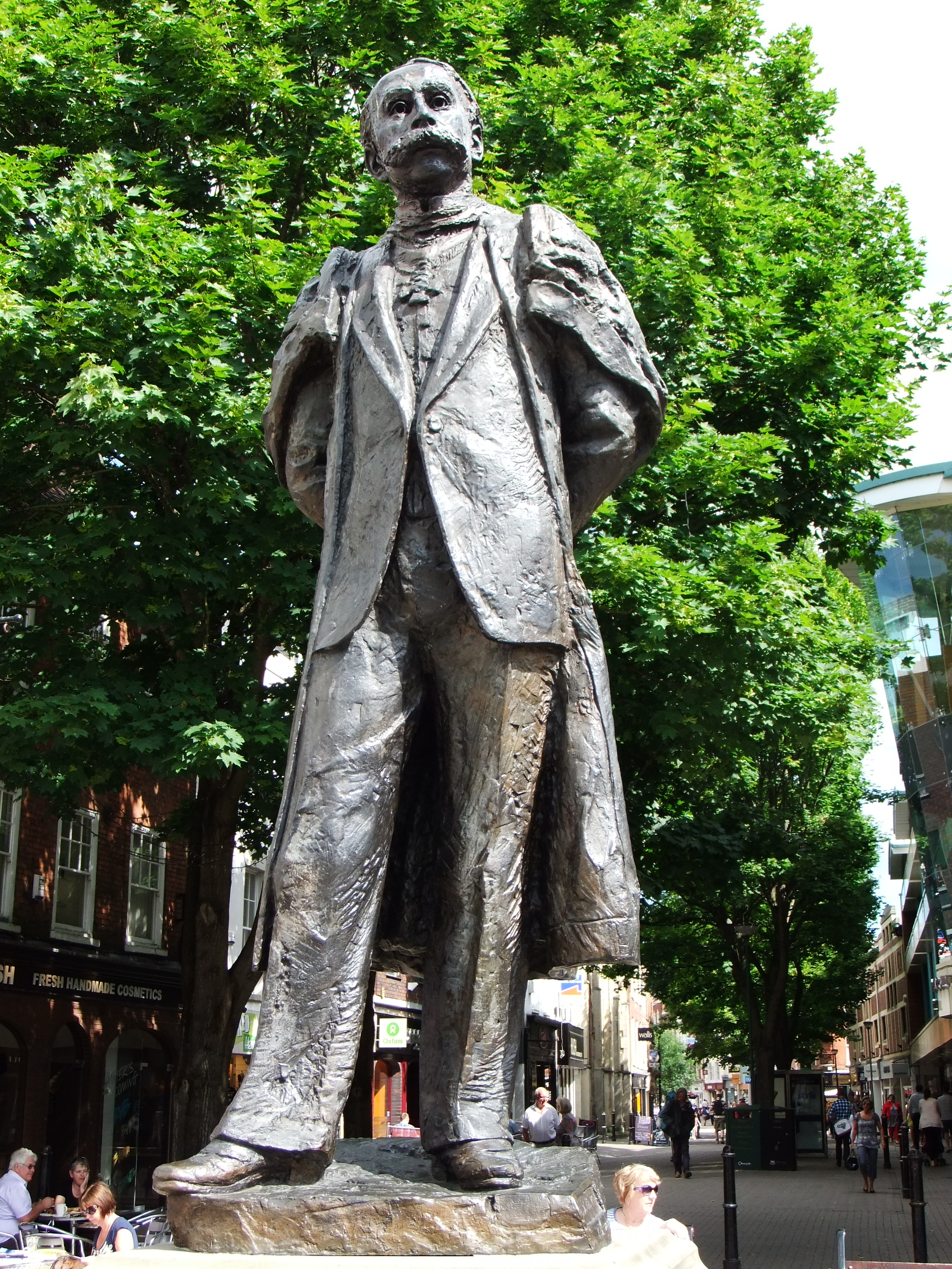 Statue of Edward Elgar at Worcester, England.